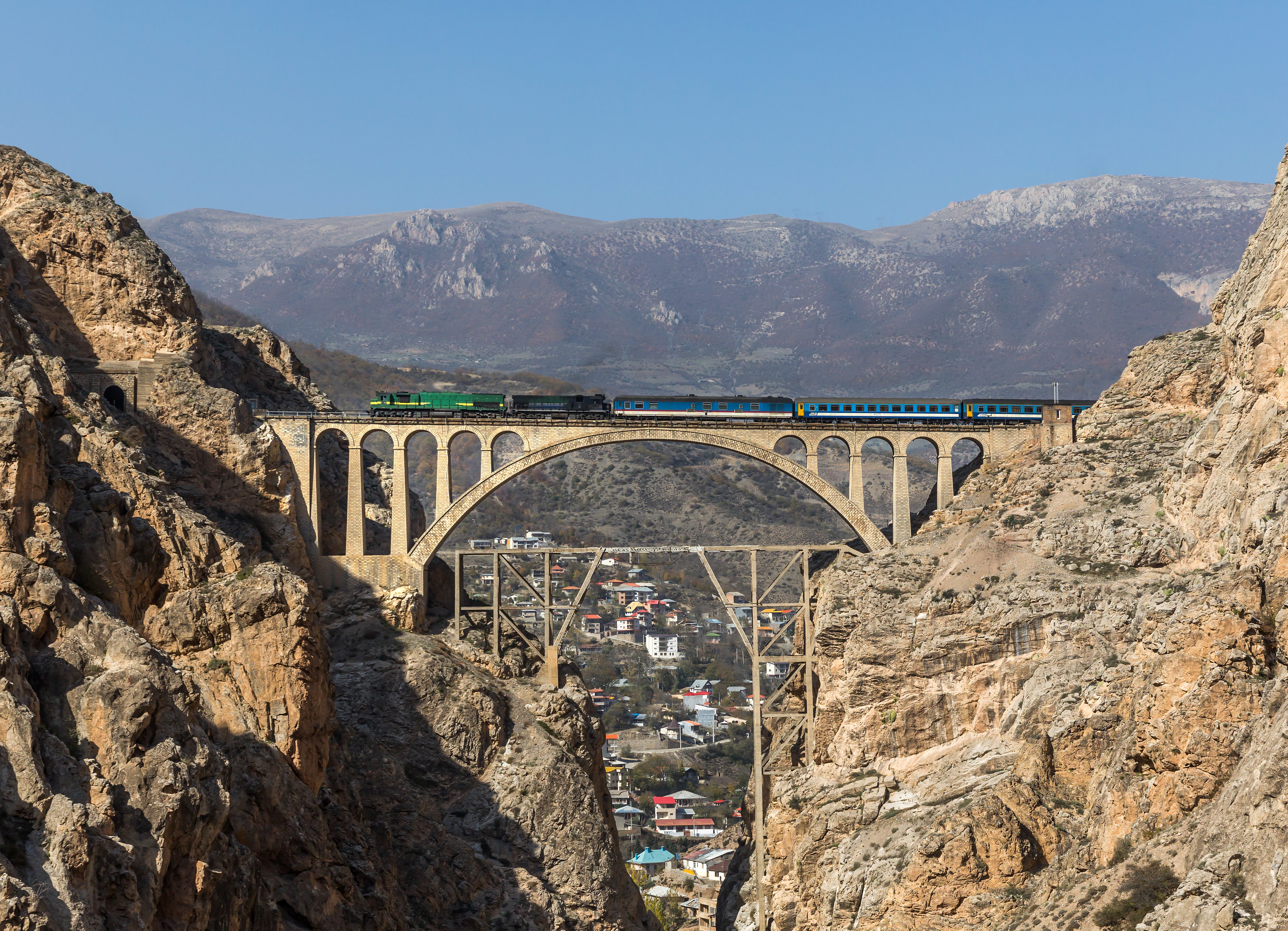 Islamic Republic of Iran Railways' 60-878 (EMD GT26CW-2) crosses the Veresk viaduct with a passenger train from Sari to Tehran, Iran.